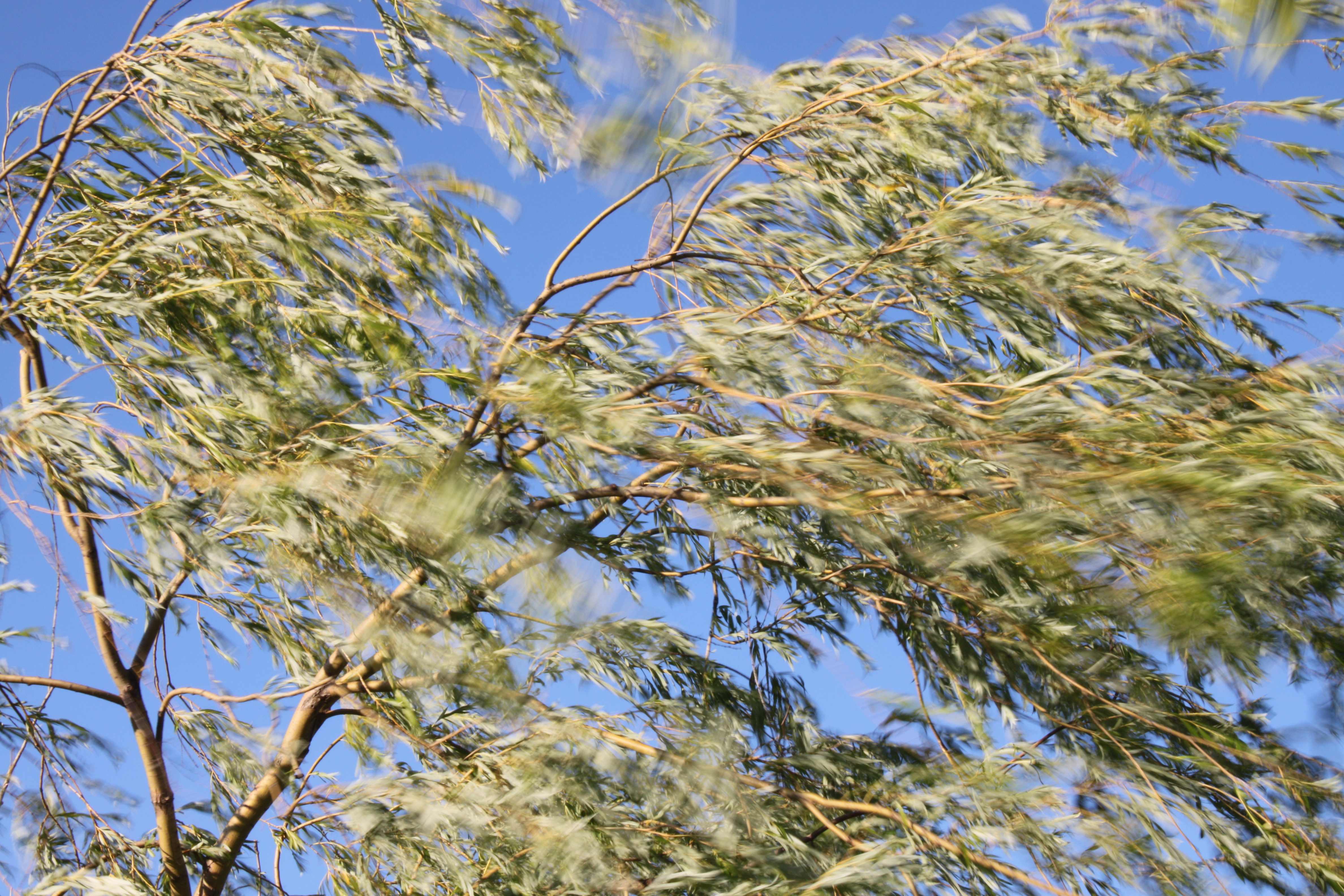 The wind, depicted by a fir tree at Lake Ivacs, Veresegyház (location completely irrelevant)